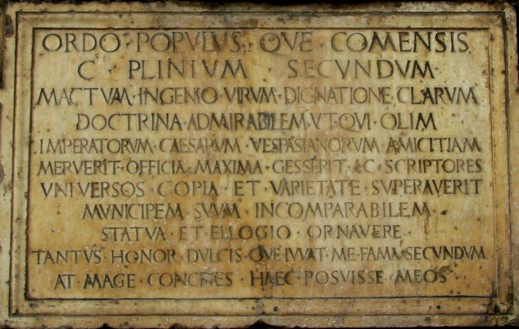 Pliny the Elder in Como.